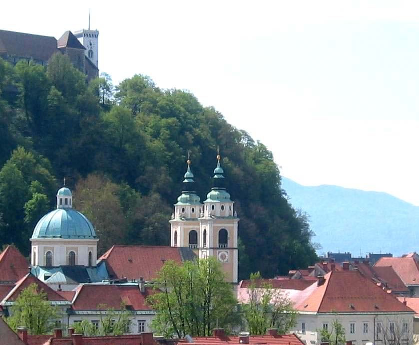 Cathedtral of St. Nicholas, Ljubljana author:Ziga 14:26, 25 April 2006 (UTC)